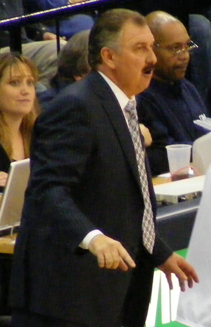 Blaine Taylor, coach of the Old Dominion University Monarchs men's basketball team